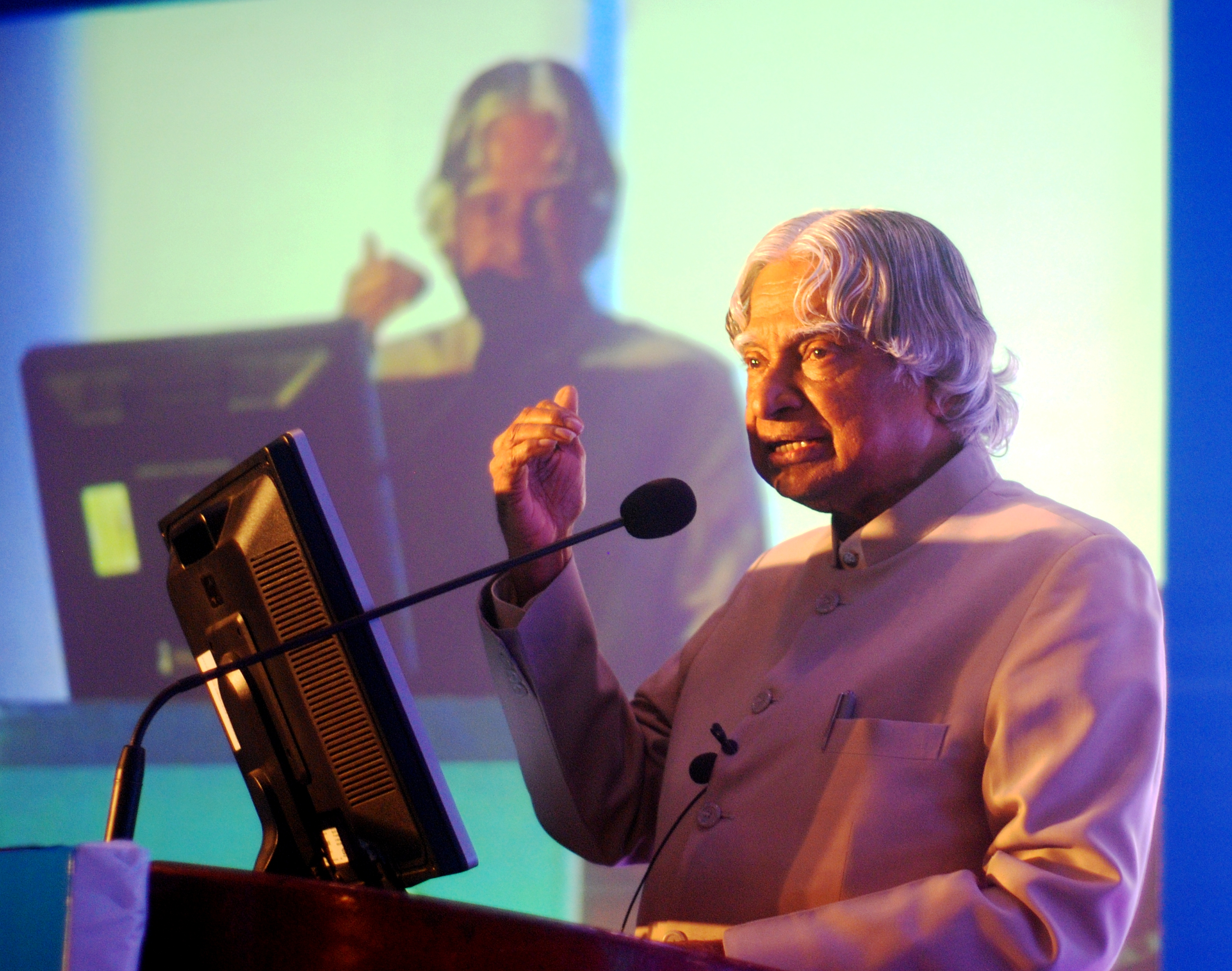 An aerospace engineer, professor, and first Chancellor of the Indian Institute of Space Science and Technology Thiruvananthapuram (IIST). Served as the 11th President of India from 2002 to 2007.